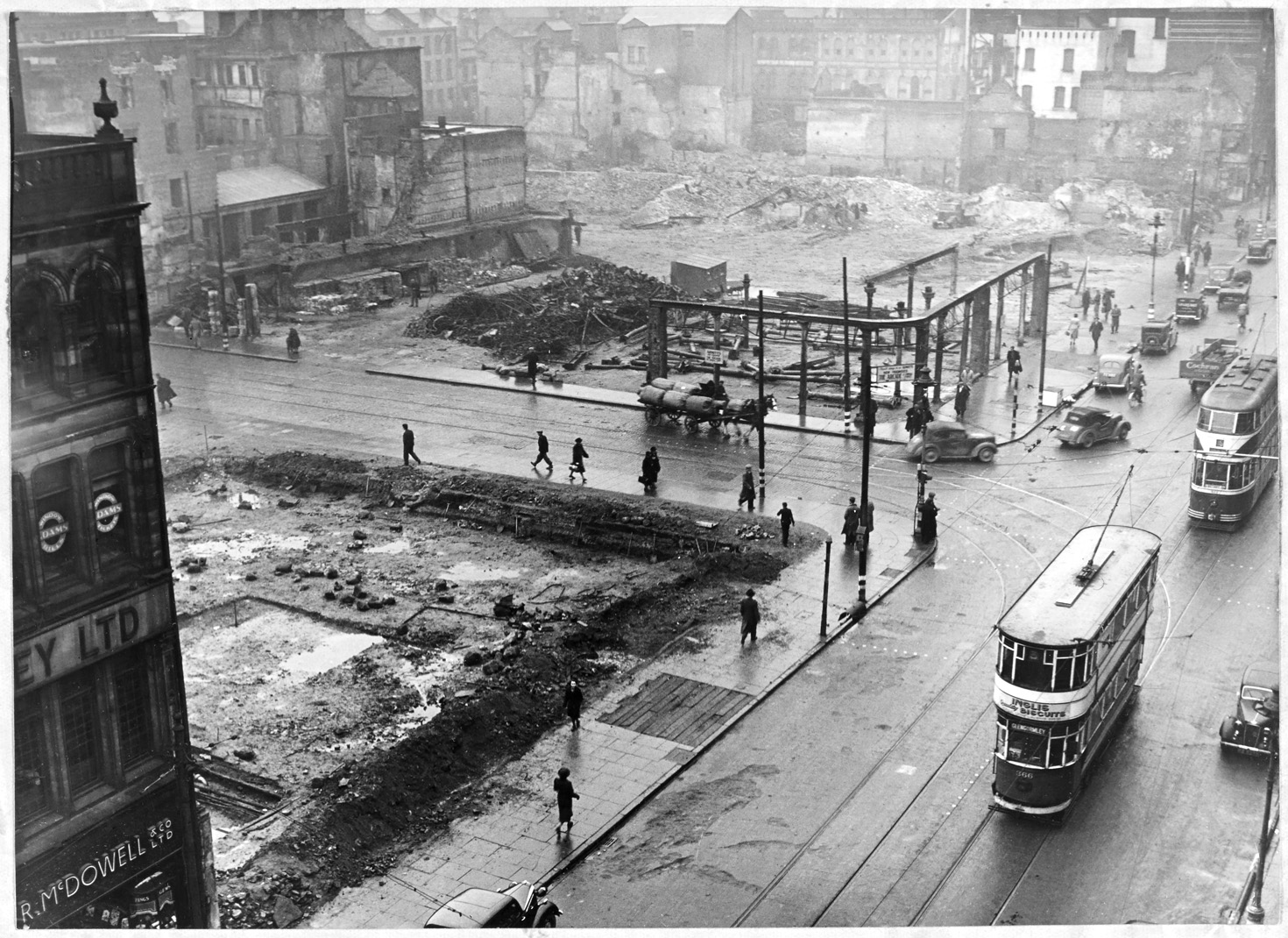 Photographs from a report compiled by the Ministry of Public Security on the air raids on Belfast and their aftermath. Creator: Ministry of Public Security, records of the Cabinet Secretariat Date: 1941 Original Format: Photographic print Description: High Street and Bridge Street, Belfast, partly cleared - December 1941 PRONI Ref: CAB/3/A/68/A For Copy Orders, contact: For fees and charges